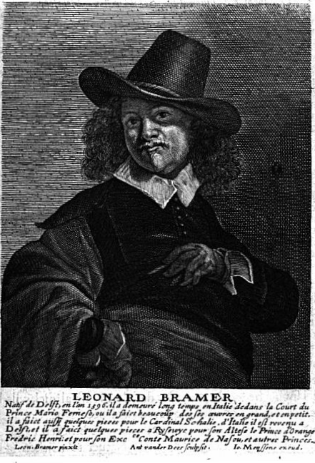 Portrait of Leonard Bramer in Cornelis de Bie's Gulden Cabinet.